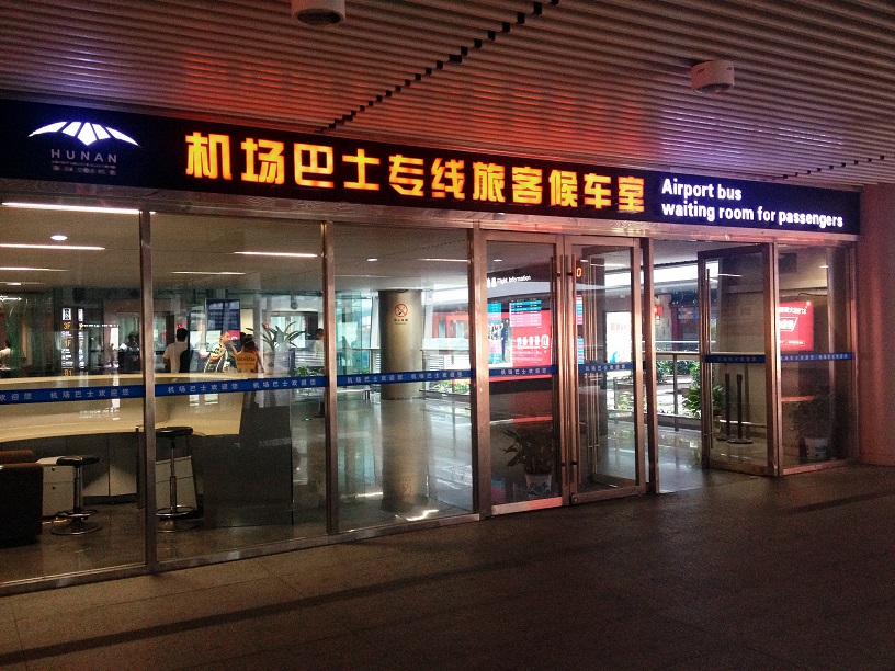 Changsha Airport buses % coaches waiting area